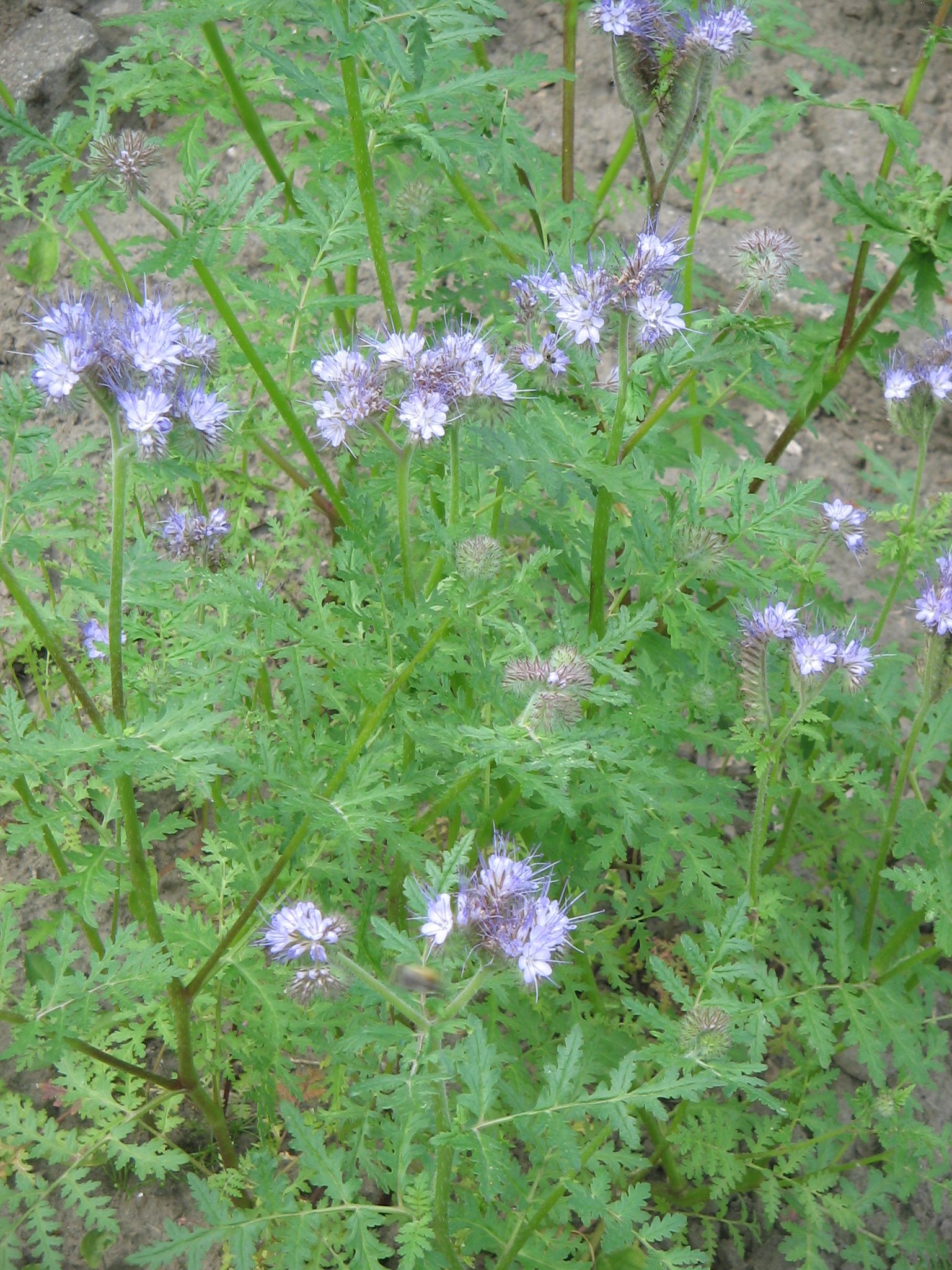 Phacelia tanacetifolia